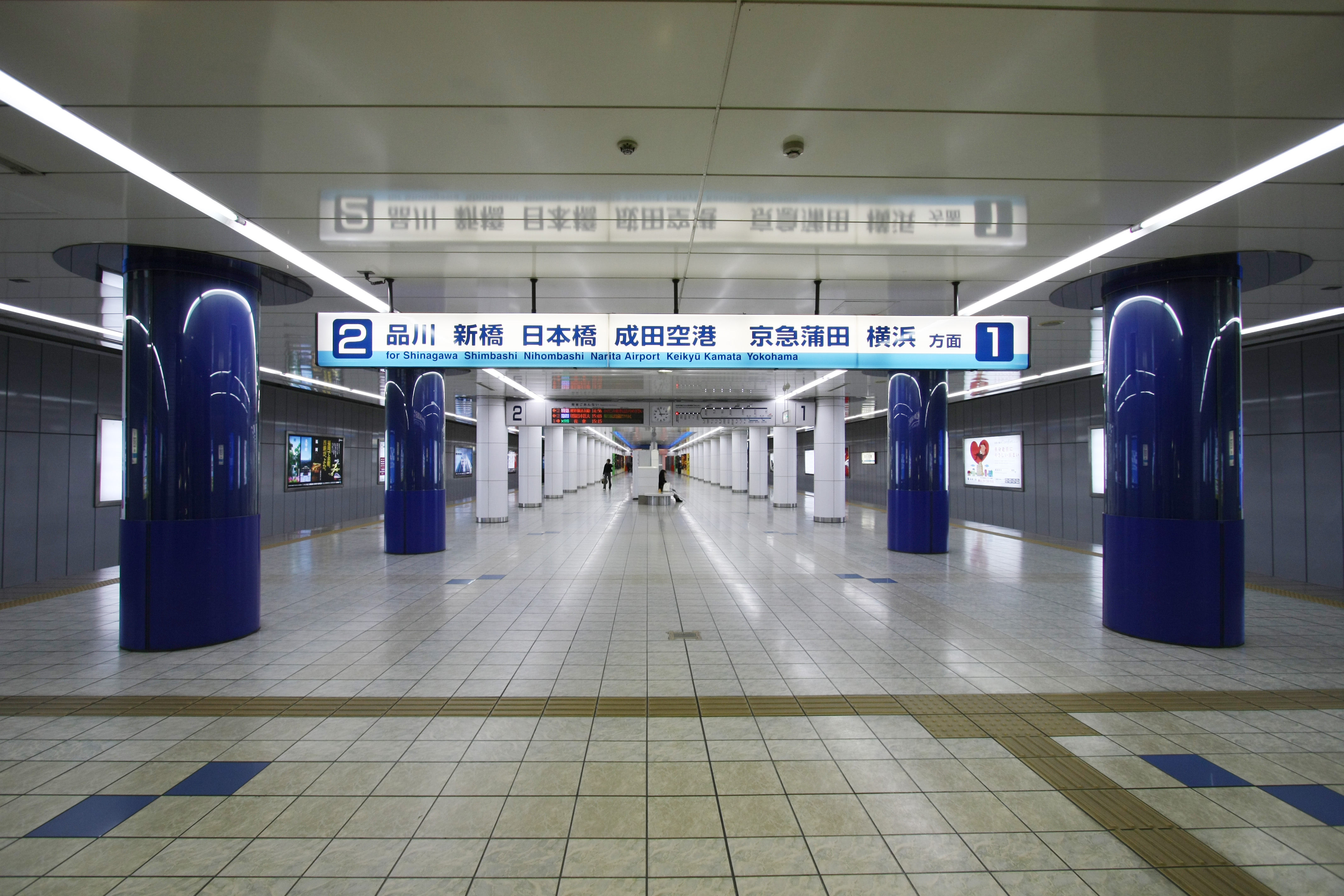 The platforms of Haneda Airport Station (later renamed Haneda Airport Domestic Terminal Station)